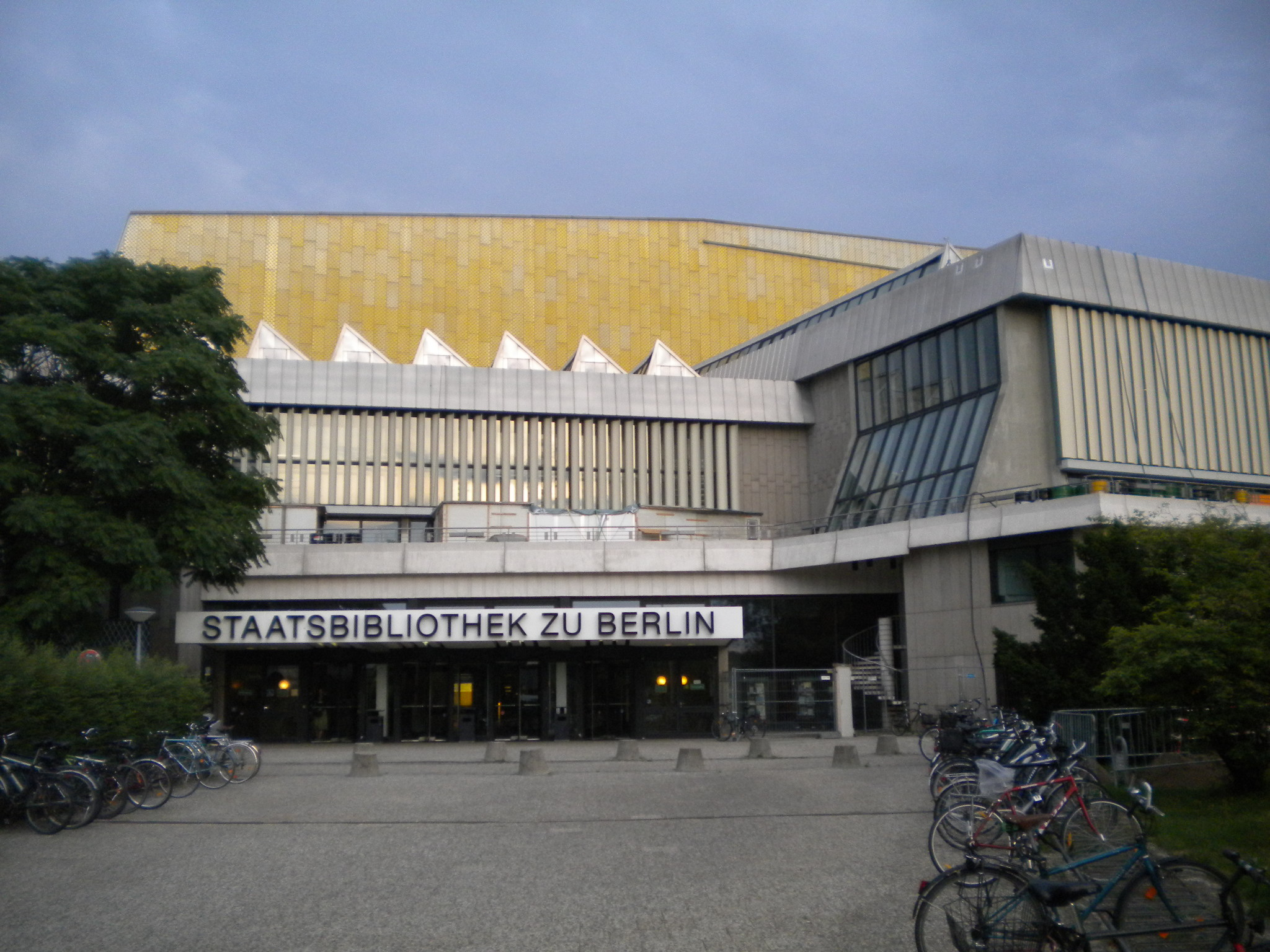 Berlin State Library